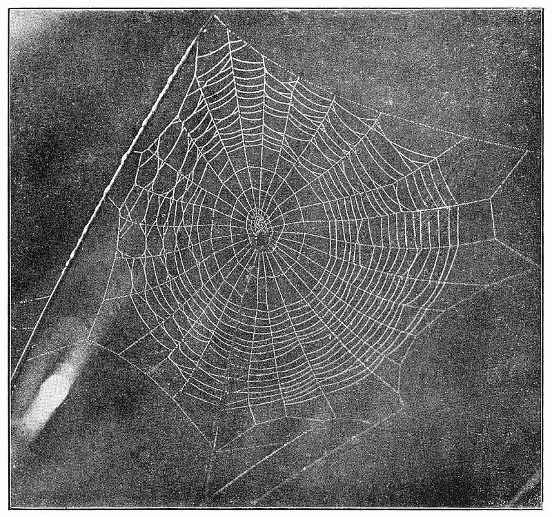 Unfinished web of Epeira stellata with the spider hanging near the center. Half the real size.